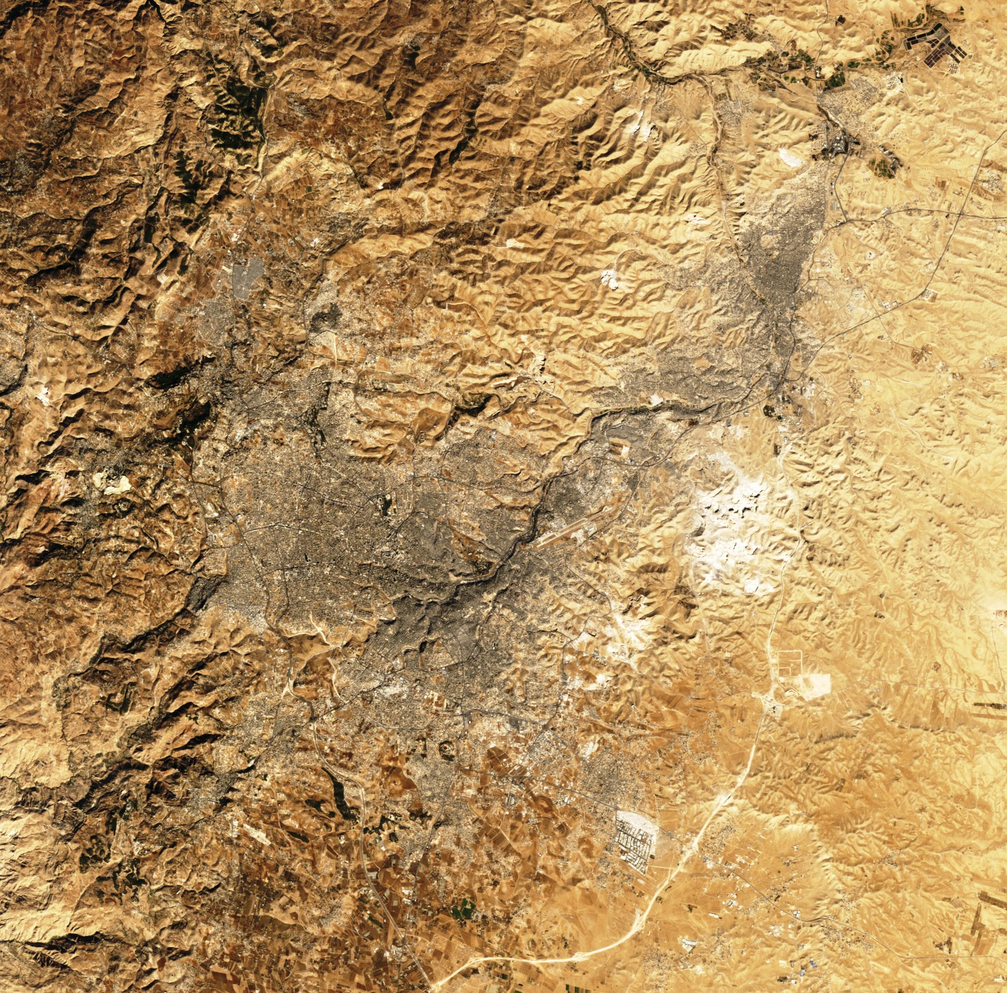 Satellite image of Amman, Jordan.